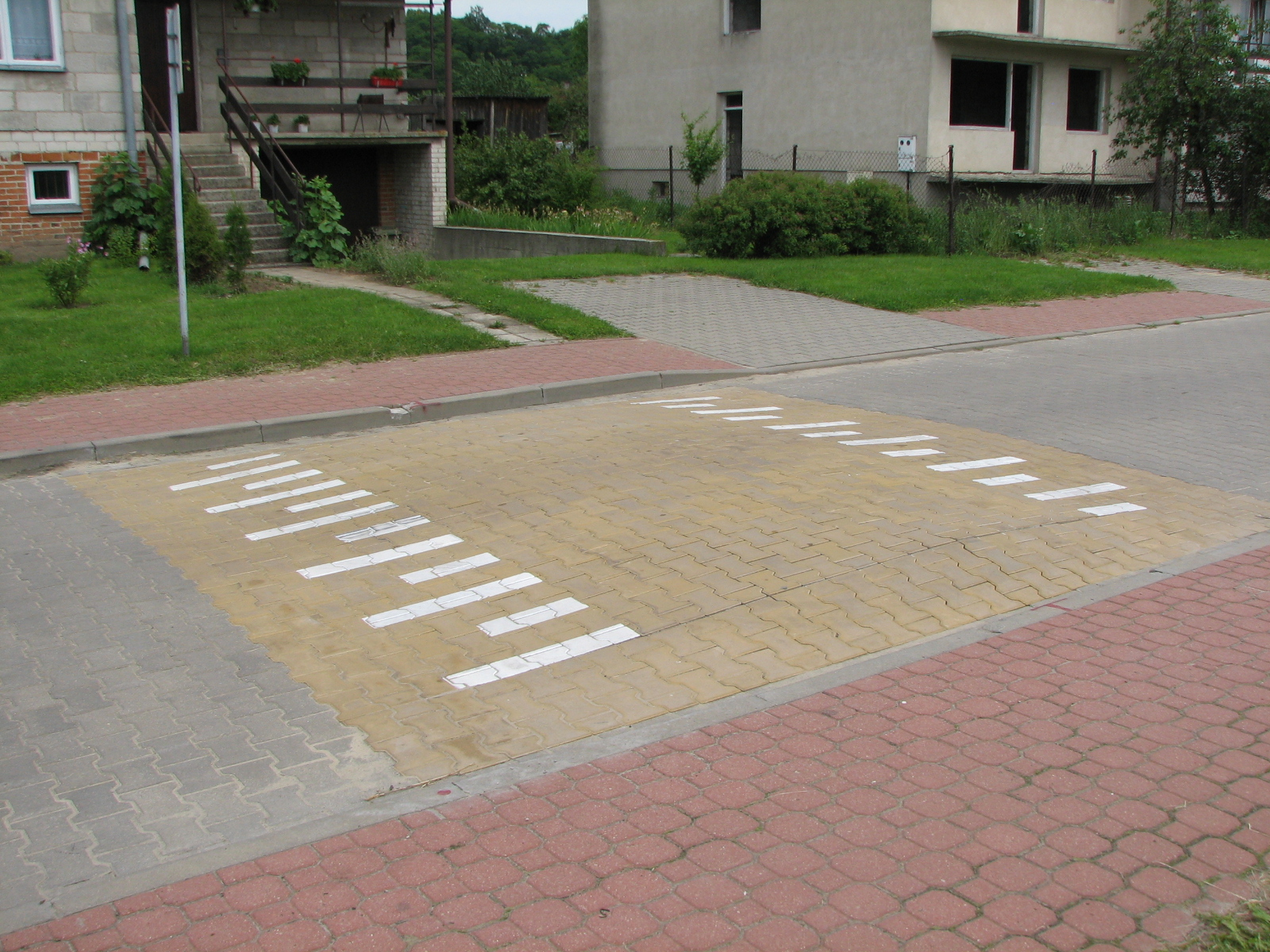 Speed hump in Poland.